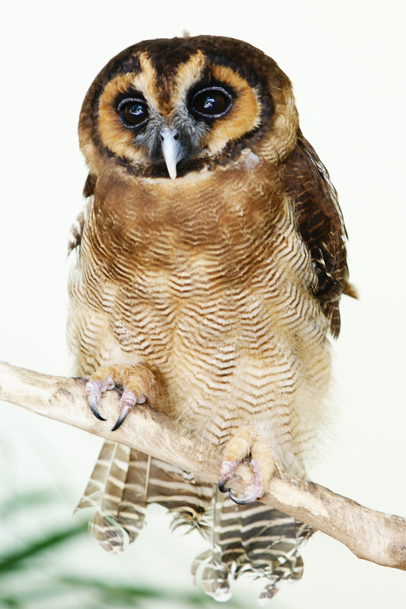 Brown Wood-owl at Kuala Lumpur Bird Park, Malaysia.